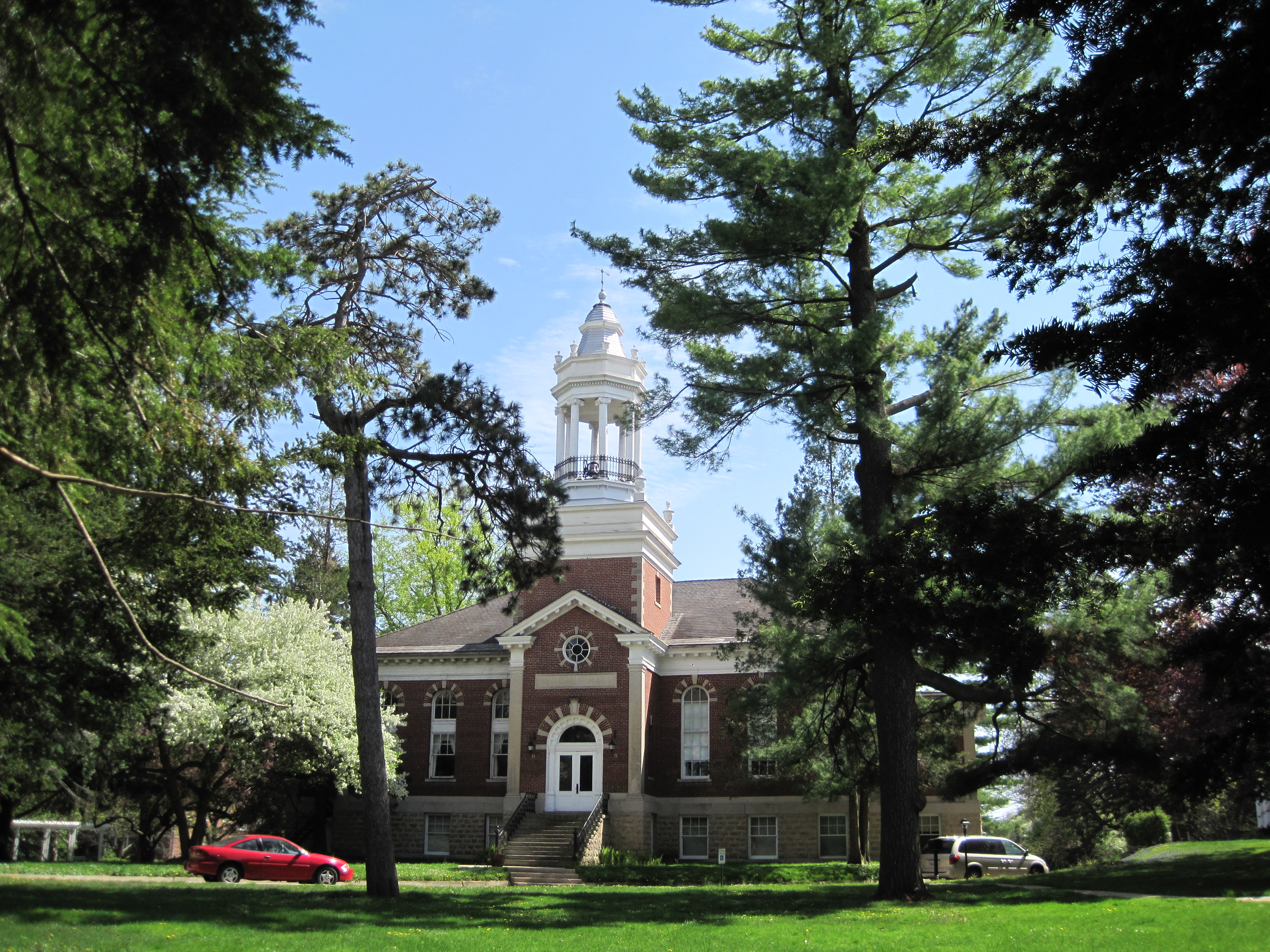 Metcalf Hall on the former Shimer College campus in Mount Carroll, Illinois, built in 1908 and now part of the Campbell Center for Historic Preservation Studies.